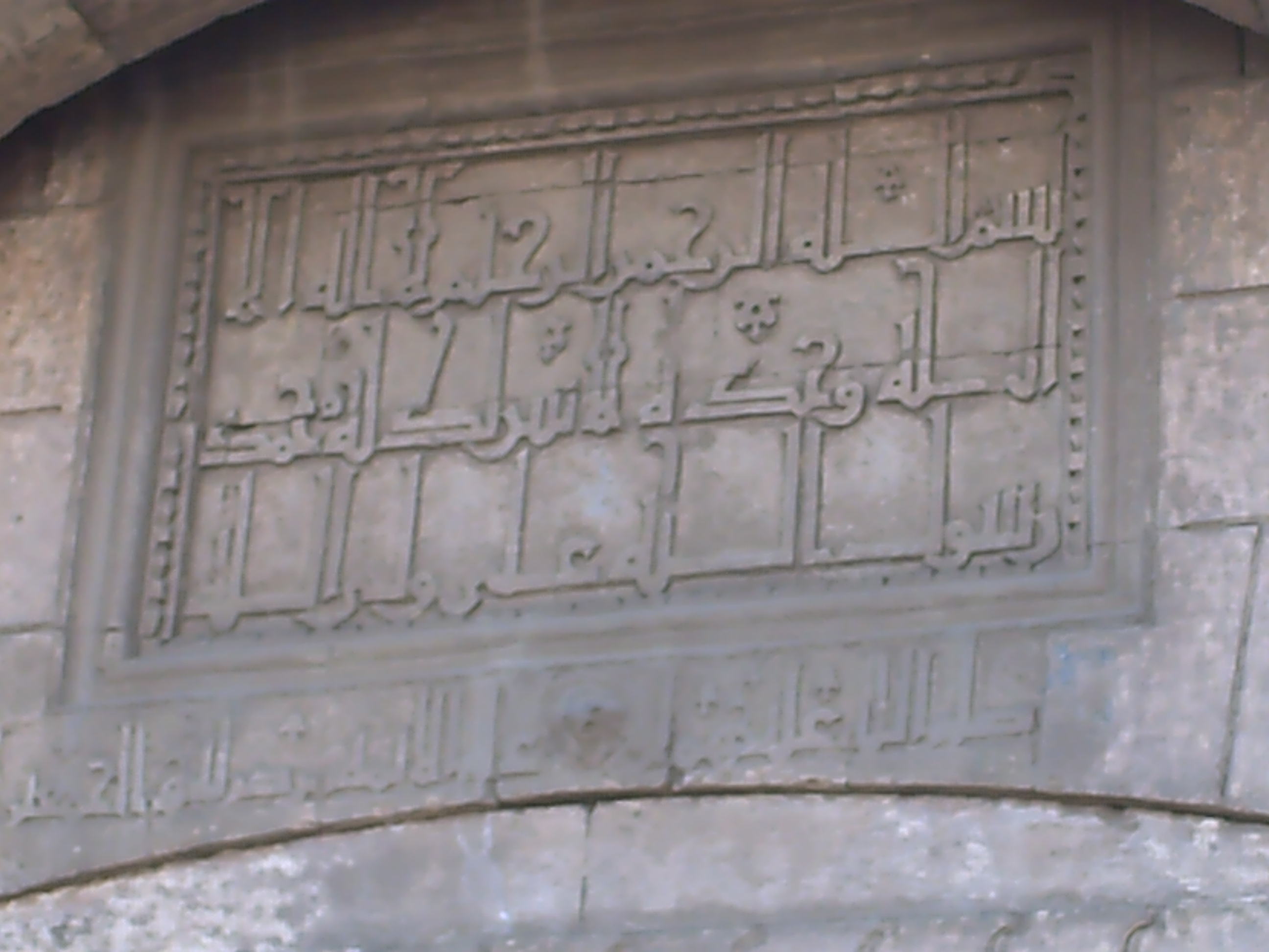 Kalema at Bab al-Nasr, Fatimid Cairo [1] [2]